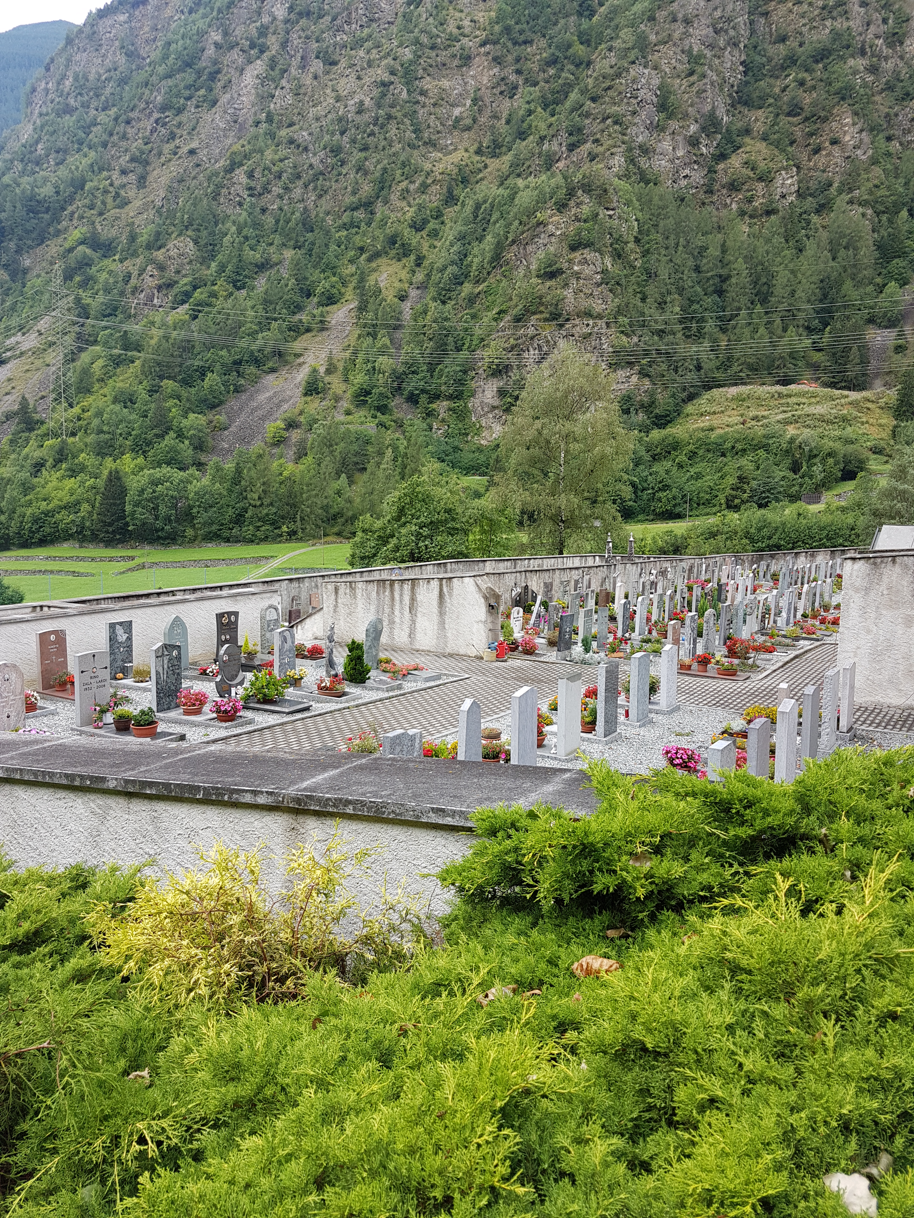 Brusio is a municipality and a circle of the canton of Grisons, Switzerland. Catholic Church hl. Charles Borromeo in Brusio.